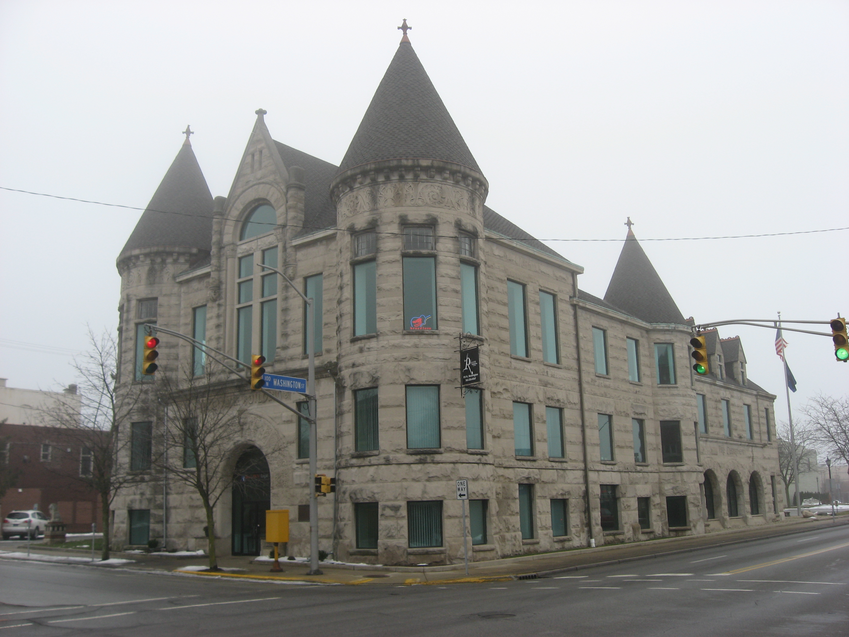 Front and western side of the former Kokomo City Building, located at 221 W. Walnut Street in Kokomo, Indiana, United States. Built in 1893, it is listed on the National Register of Historic Places.